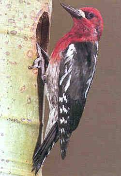 Red-breasted Sapsucker (Sphyrapicus ruber)